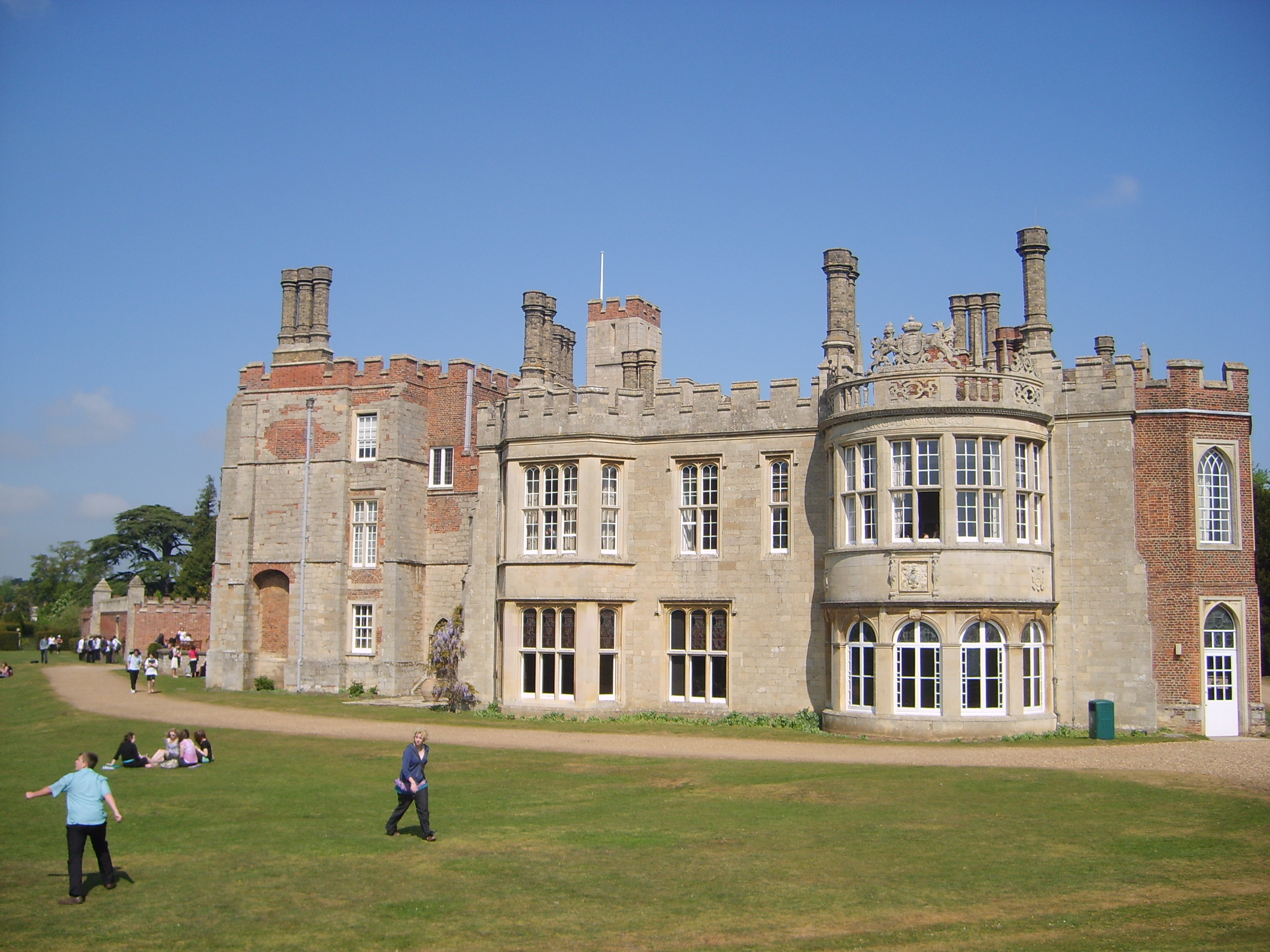 A picture of Hinchingbrooke House taken from within the school grounds.